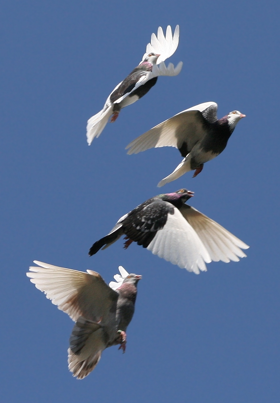 A flock of domestic Rock Pigeons (Columba livia f. domestica) in flight above Hurlstone Park, a suburb of Sydney. Each pigeon is in a different phase of its stroke.